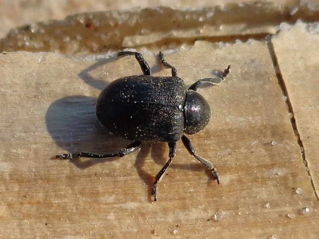 Bromius obscurus. Found in Vakarbuļļi coast in Rīga town near Bolderaja, Latvia